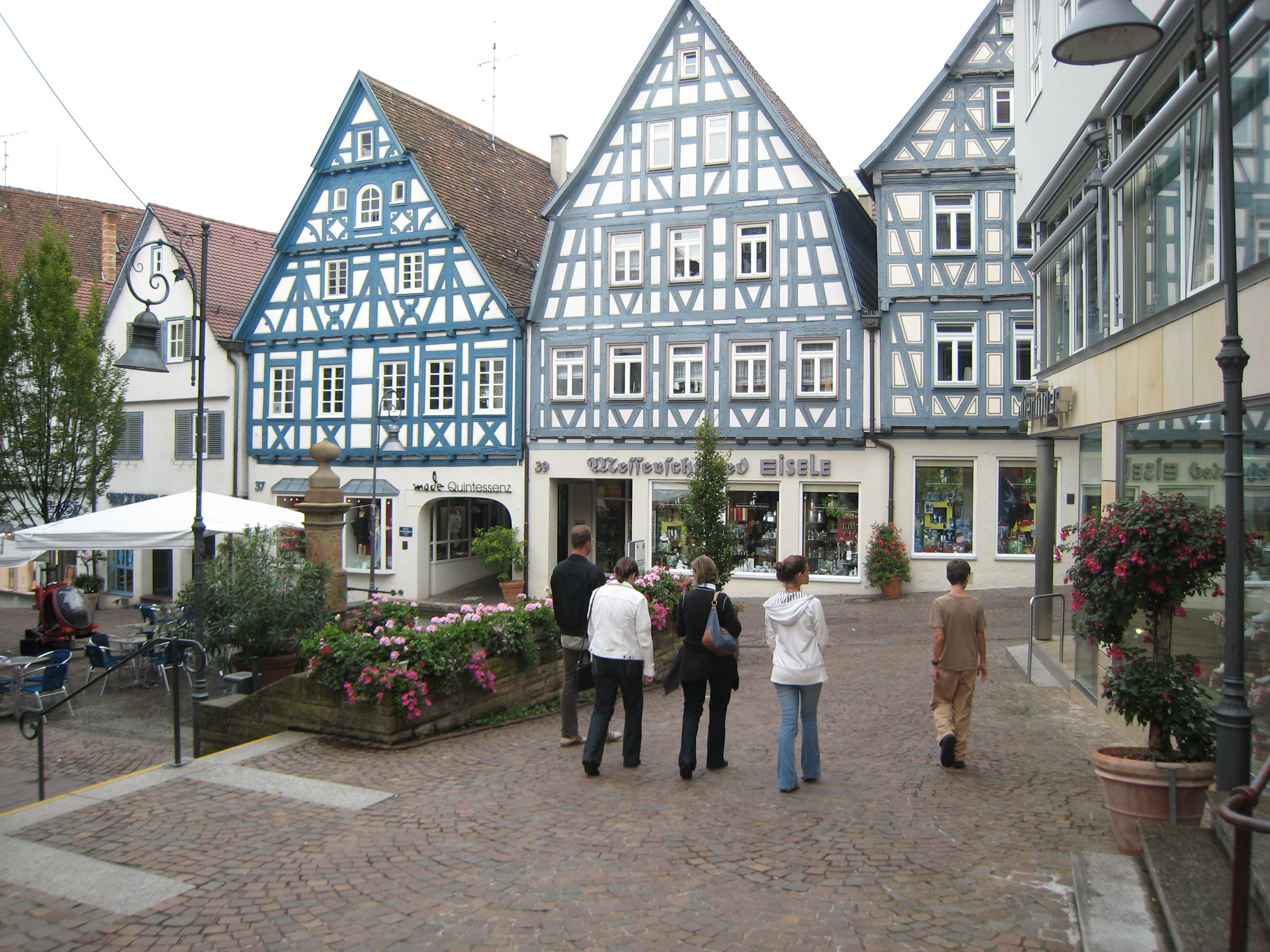 Waiblingen in 2007